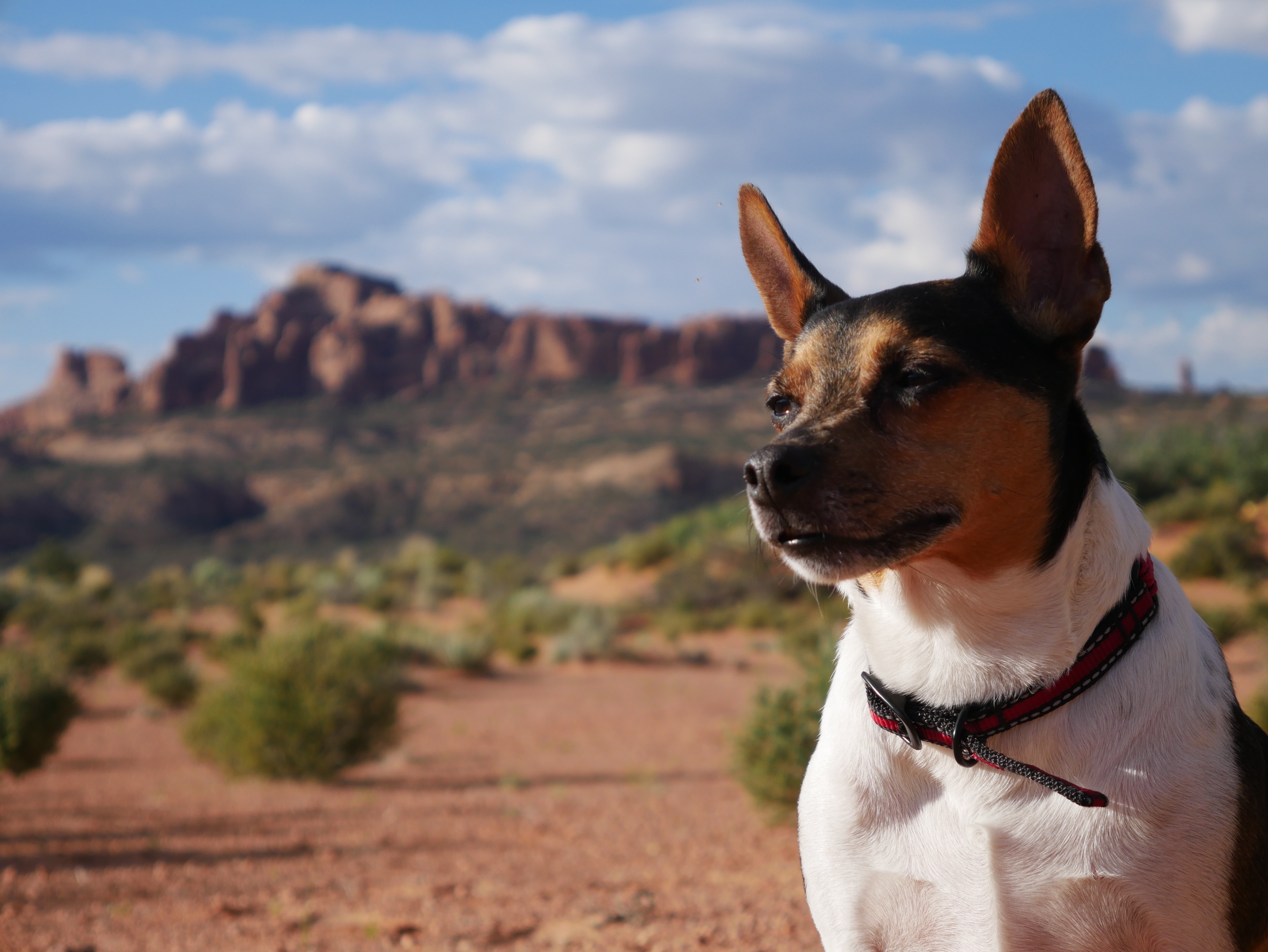 Rat Terrier Outdoors